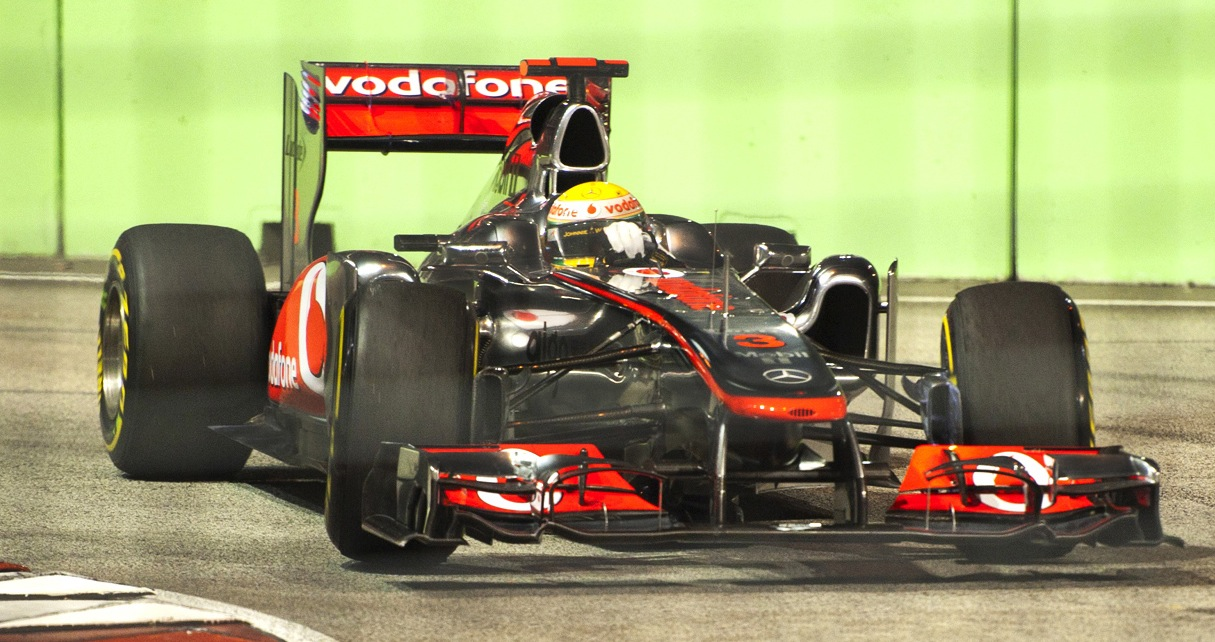 Lewis Hamilton Singapore 2011 practice